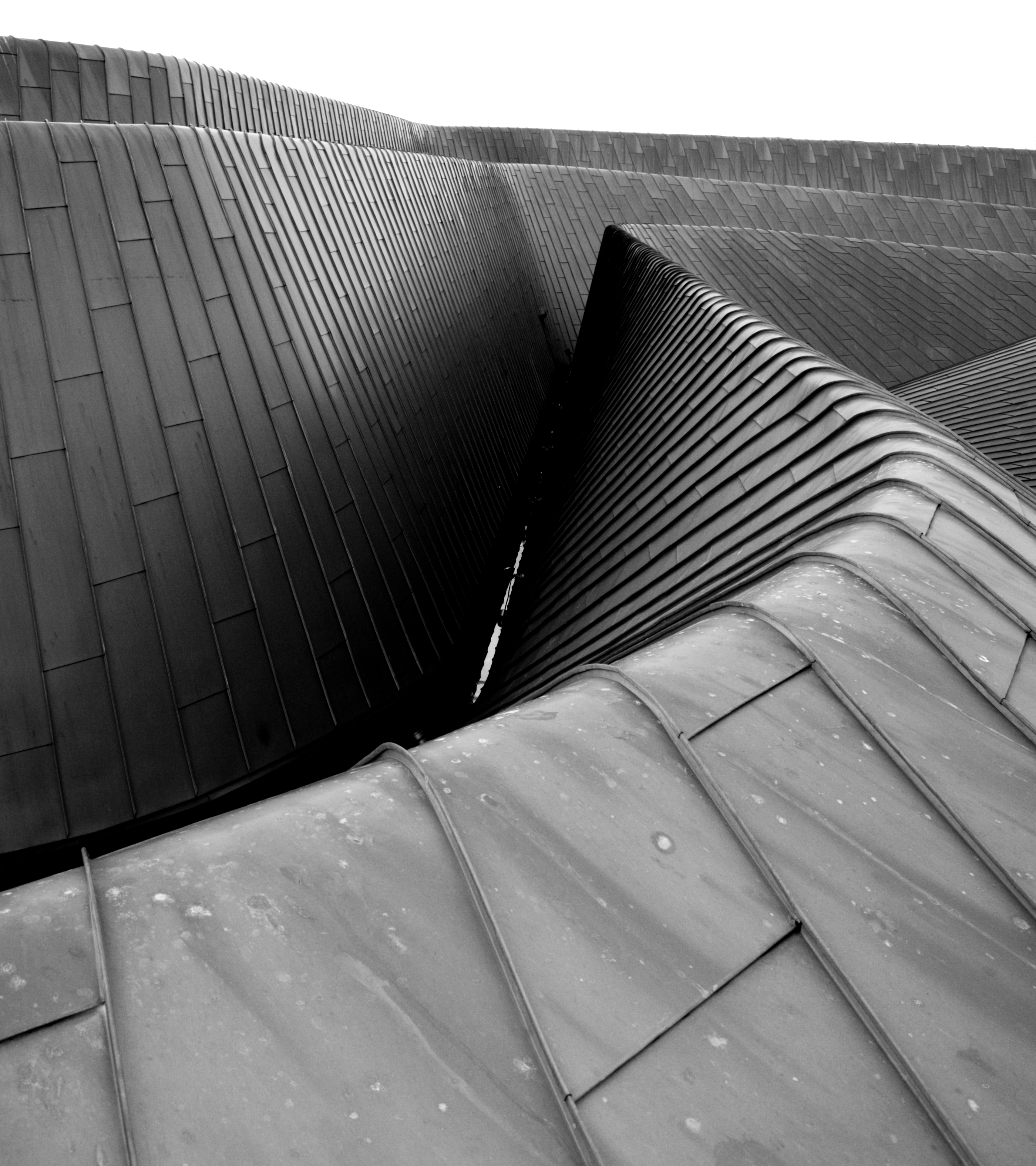 Edited with GIMP